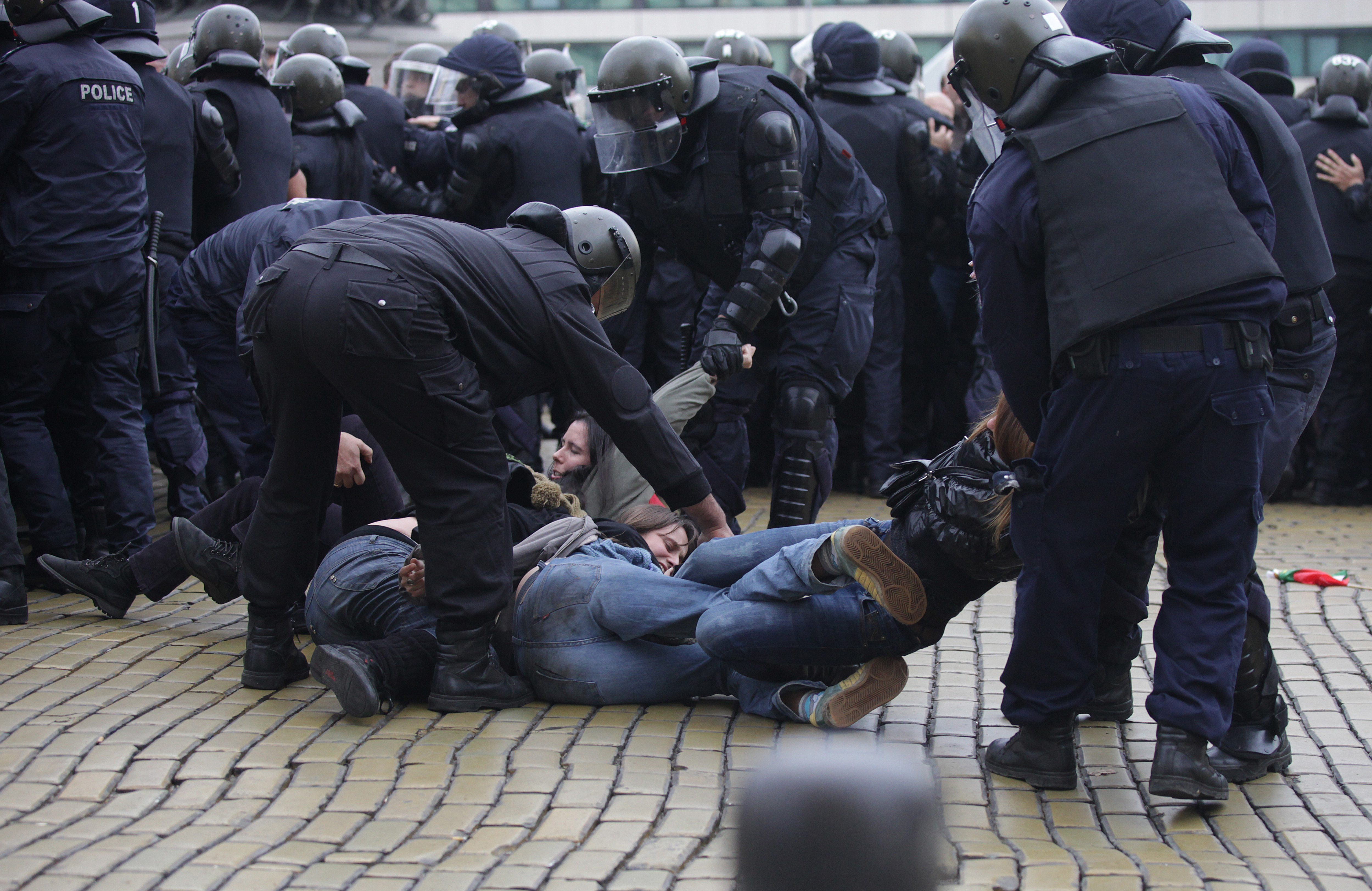 Moment of anti-government protests, Sofia, November 2013.